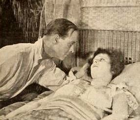 Still for the American drama film For A Woman's Honor (1919) with H. B. Warner and Marguerite De La Motte, on page 1831 of the August 30, 1919 Motion Picture News.